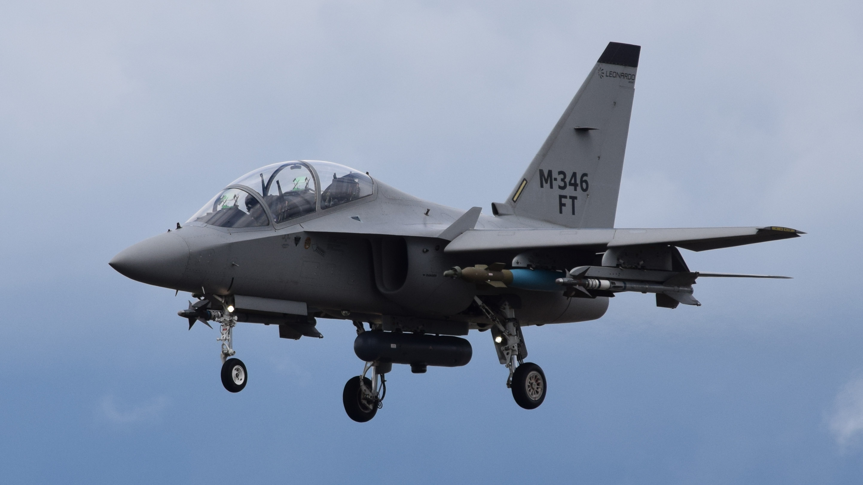 Aermacchi M-346 serial number CSX 55152 of the Italian Air Force on display at the 2016 Farnborough International Airshow, Farnborough, England